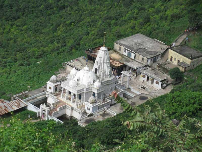 Sikharji jalmandir